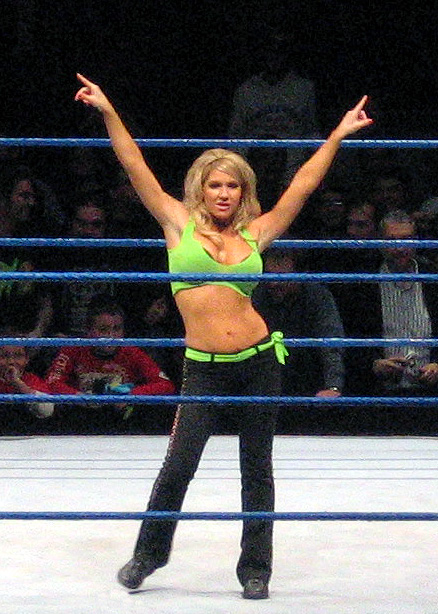 Jillian Hall during a show of the WWE SmackDown Live Tour in Barcelona